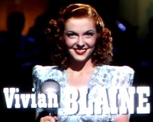 Cropped screenshot of Vivian Blaine from the trailer for the film State Fair